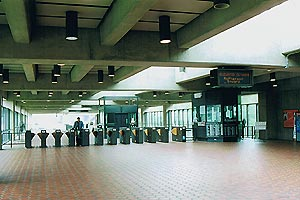 WMATA fare lobby at Franconia-Springfield station in May 2003